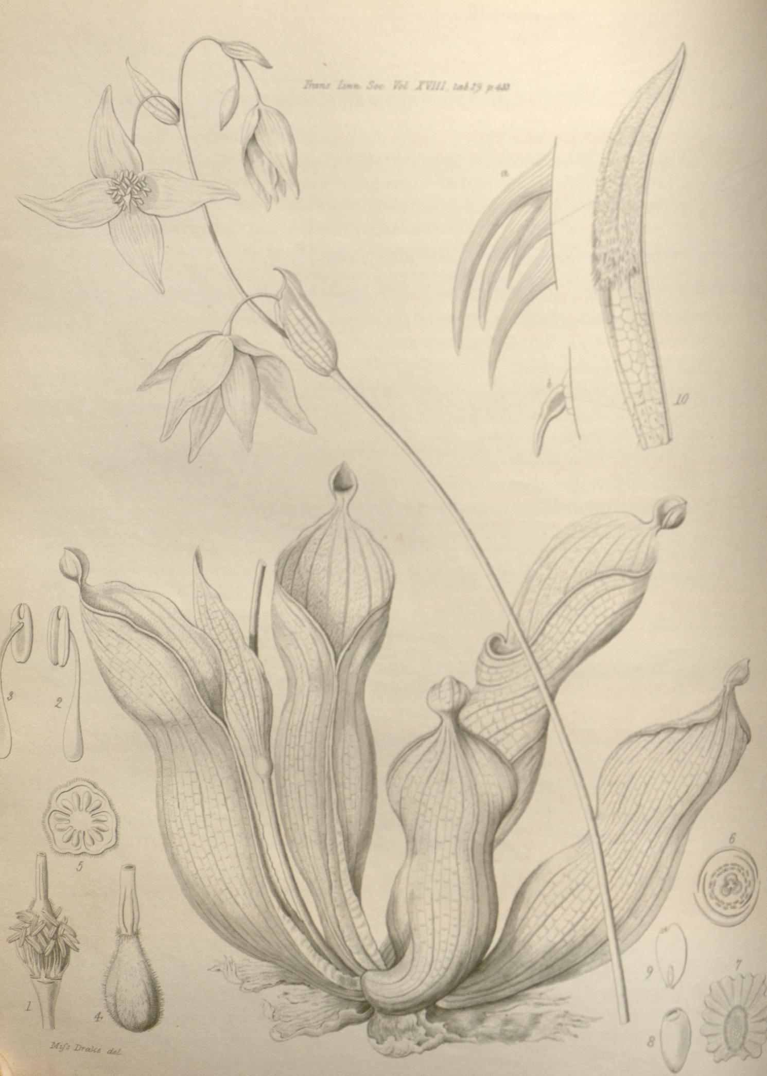 Botanical illustration of Heliamphora nutans from George Bentham's 1840 description